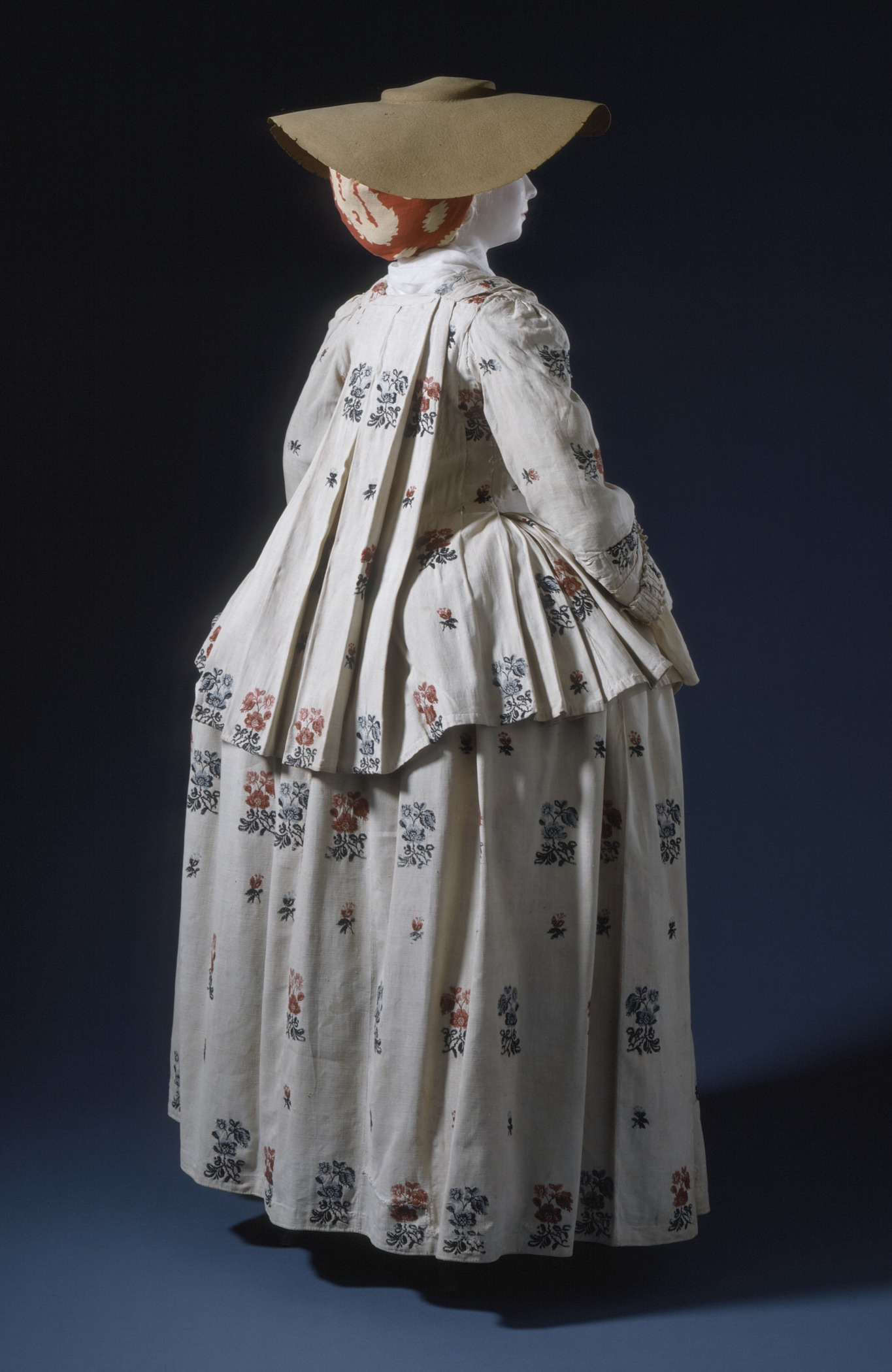 France or England, Textile- 1750-1775; reconstructed- 1770s Costumes; ensembles Linen warp and cotton weft plain weave (fustian) with wool supplementary weft patterning and linen plain weave lining Mrs. Alice F. Schott Bequest (M.67.8.74a-b) Costume and Textiles